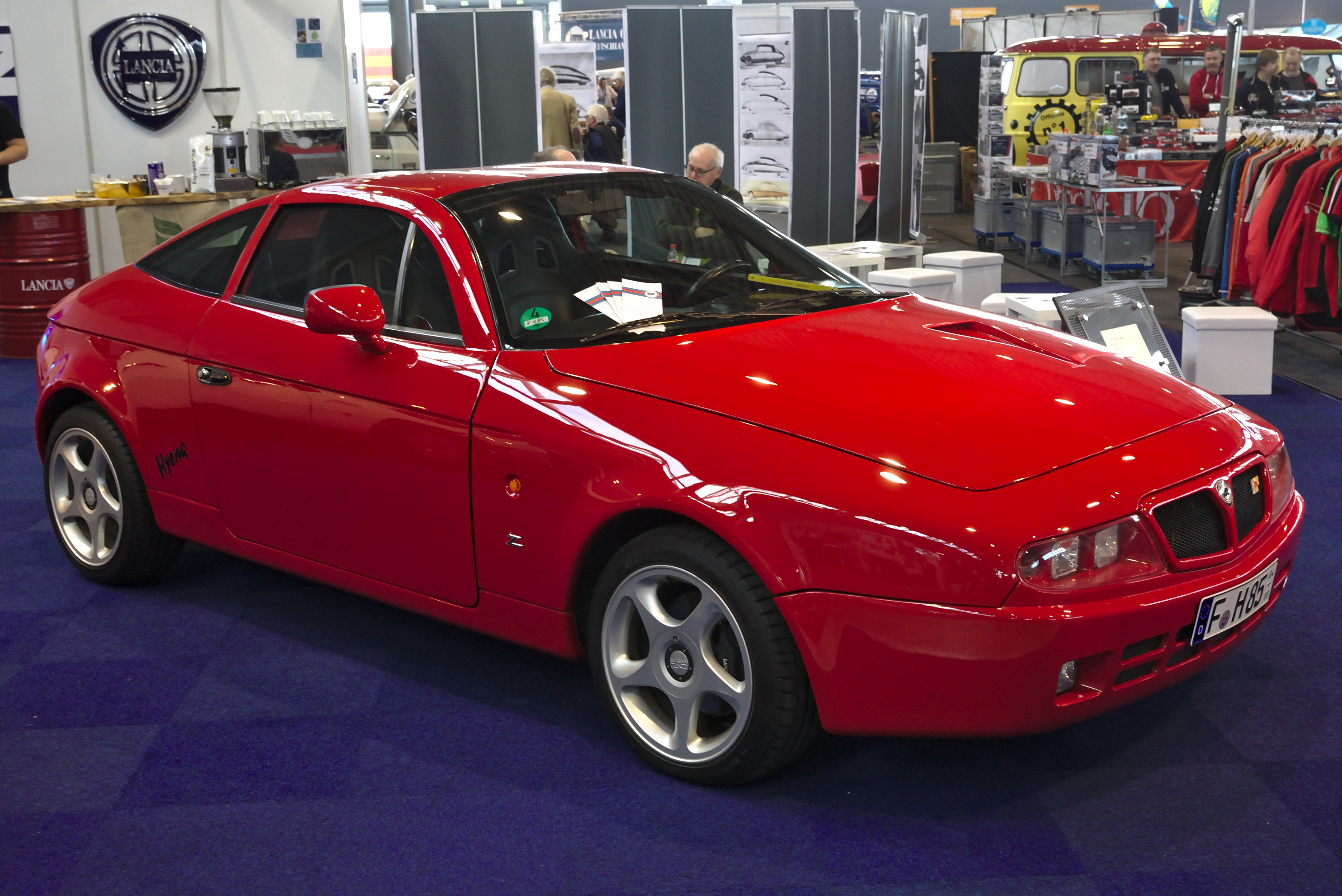 Lancia Hyena Zagato at Retro Classics 2019